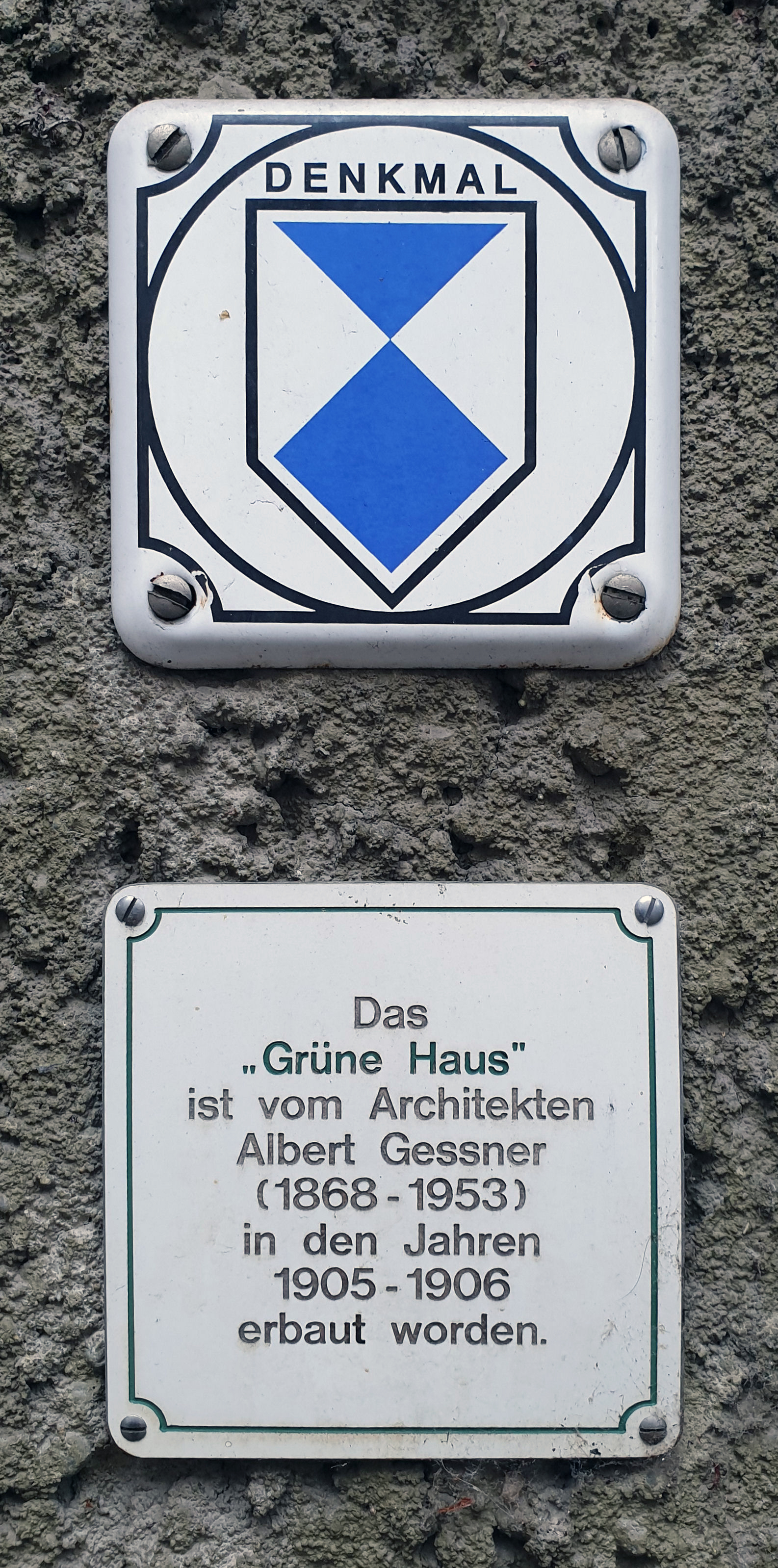 Memorial plaque, Albert Gessner, Niebuhrstraße 2, Berlin-Charlottenburg, Deutschland